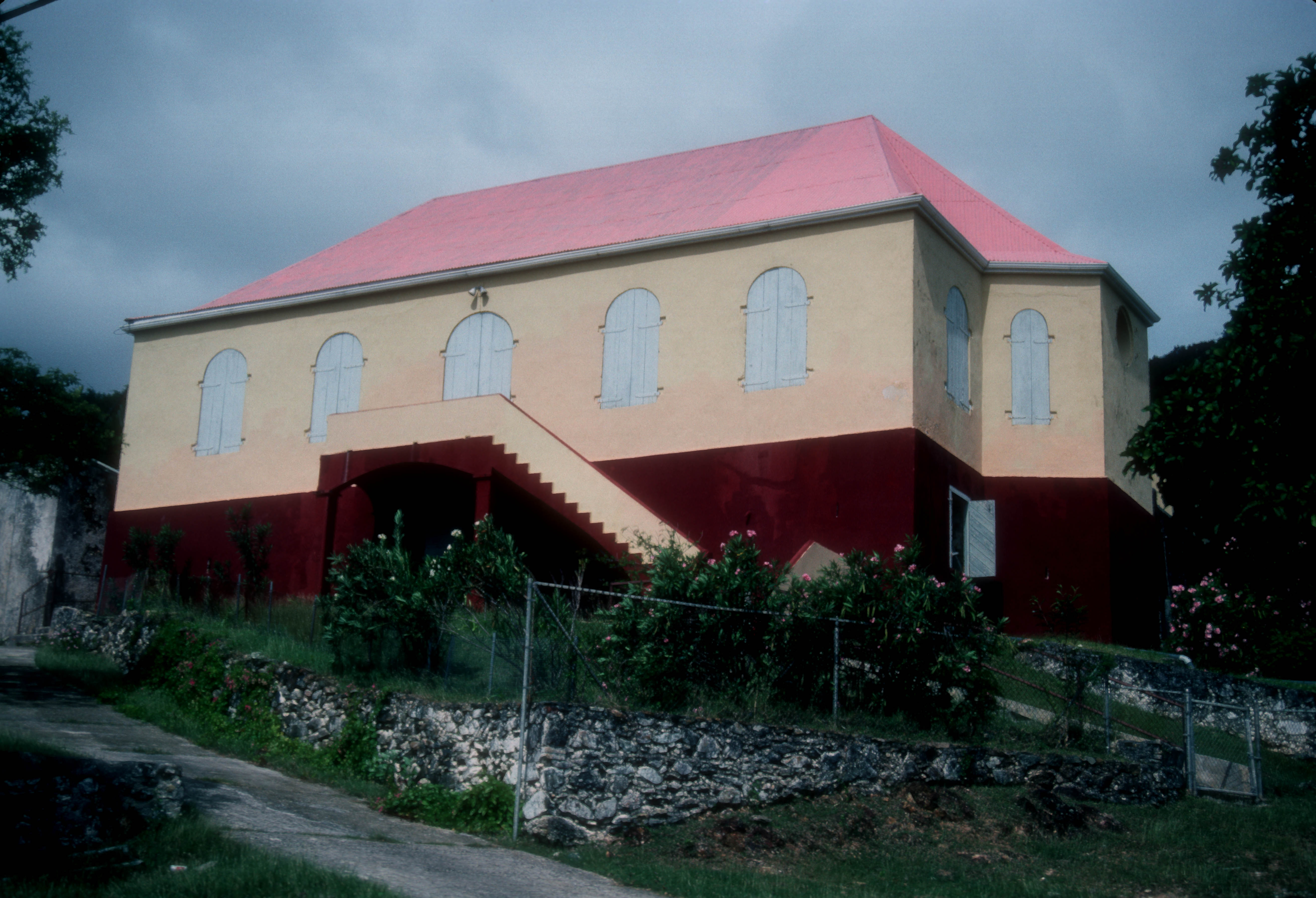 BUILT IN 1783 AT THE END OF CORAL BAY